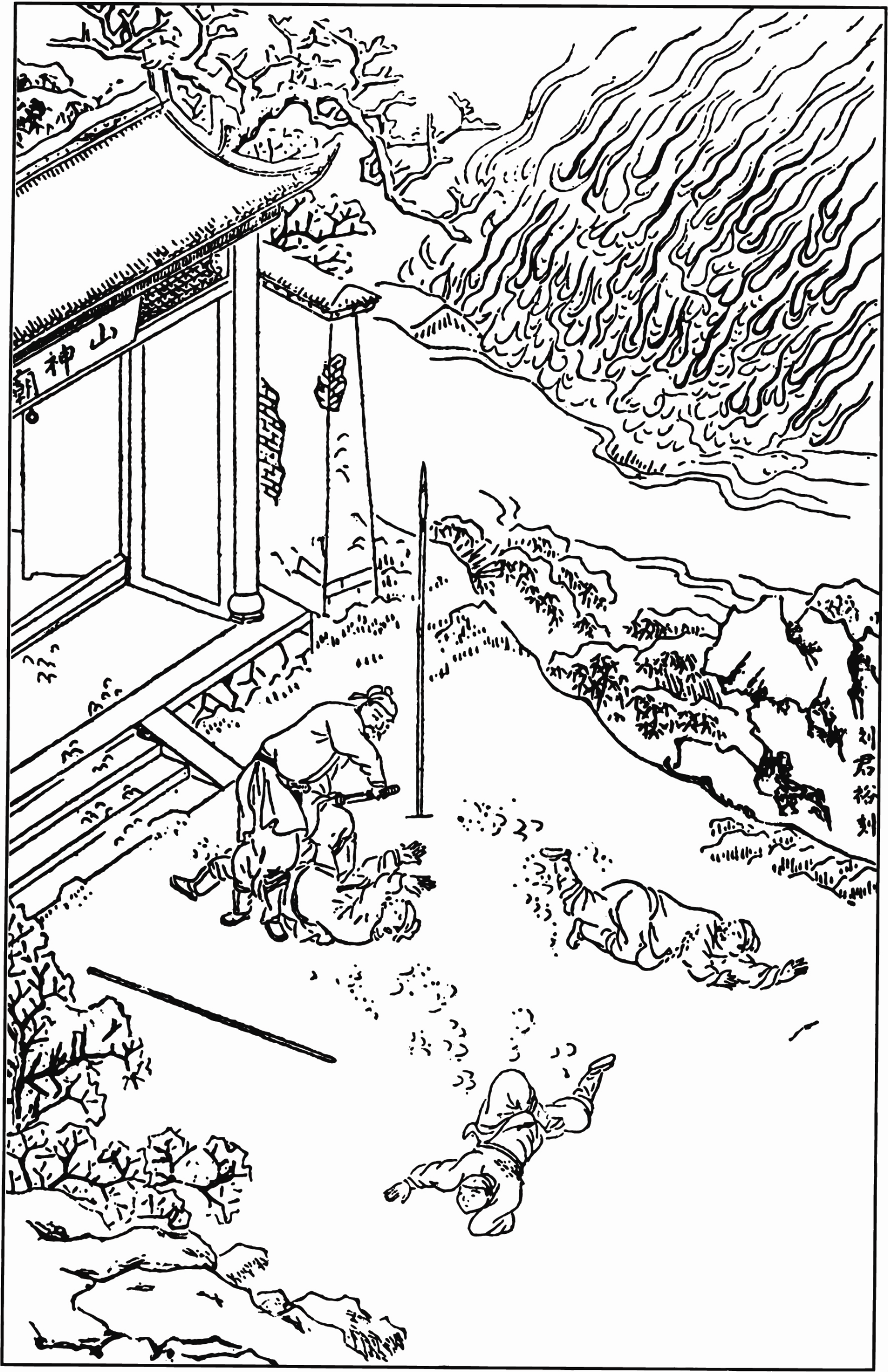 Illustration of ancient Chinese book “Outlaws of the Marsh”